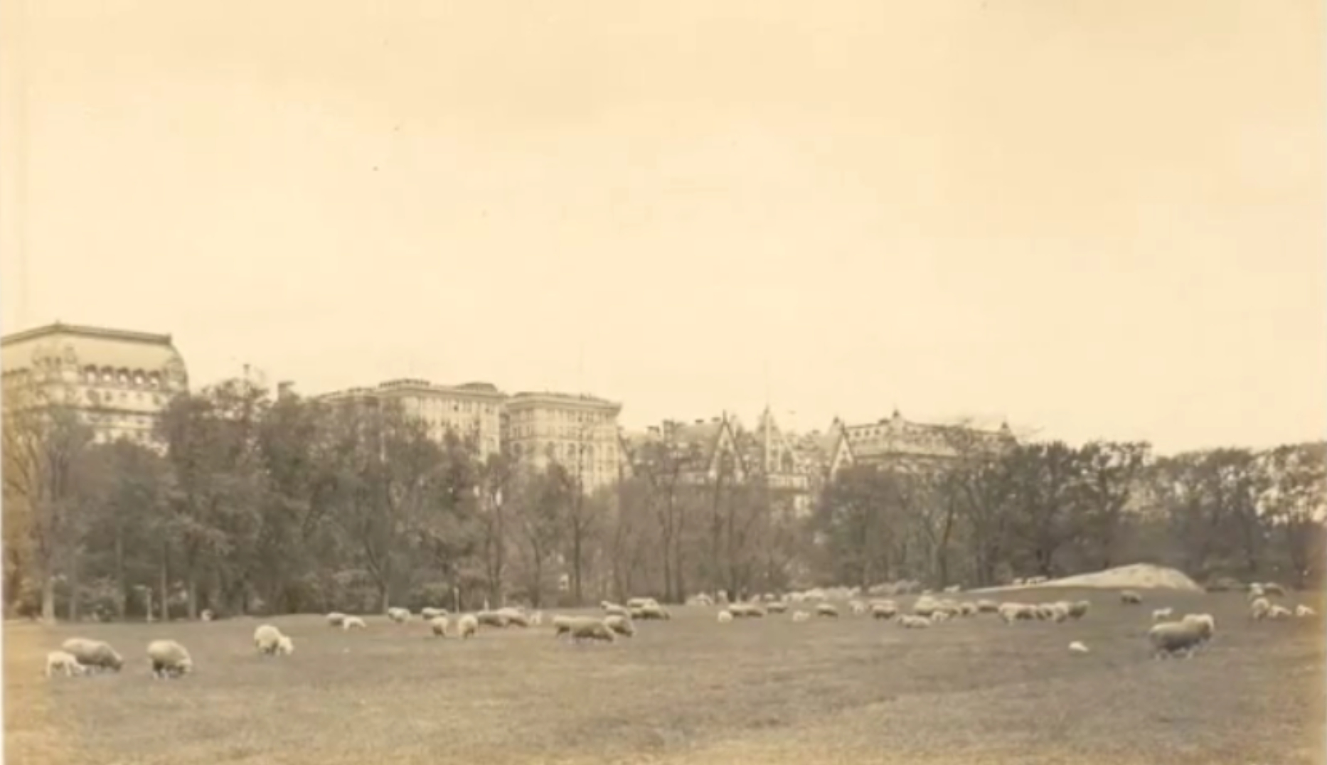 Detail of the Thaddeus Wilkerson photo postcard #53, 'Sheep Fold, Central Park, New York' (CENTRAL PARK and 59th St - 90th Street)